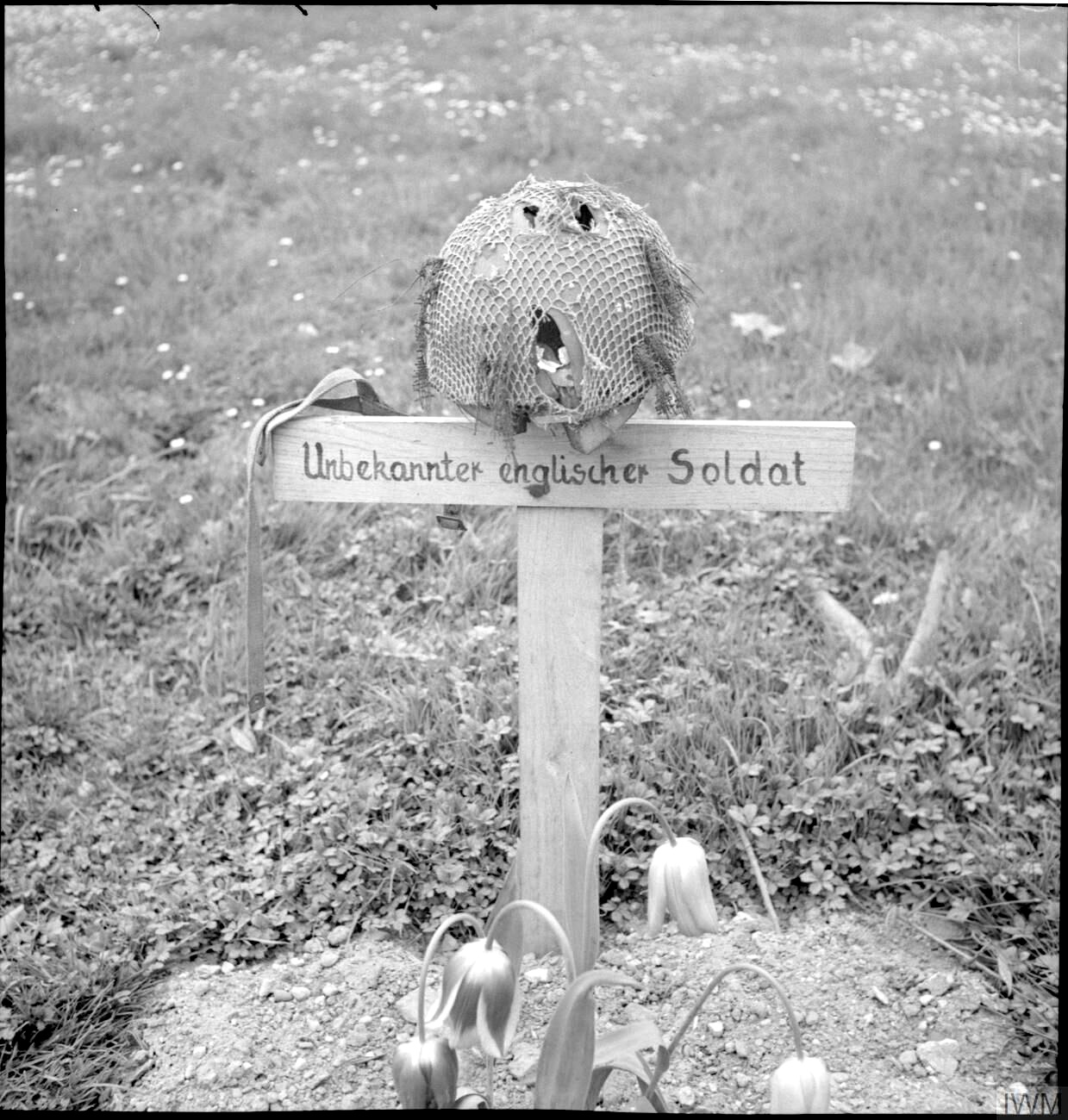 THE BRITISH ARMY IN NORTH-WEST EUROPE 1944-45 The grave of a British airborne soldier killed during the battle of Arnhem in September 1944, photographed by liberating forces on 15 April 1945. On the cross is written in German „unknown English soldier“.